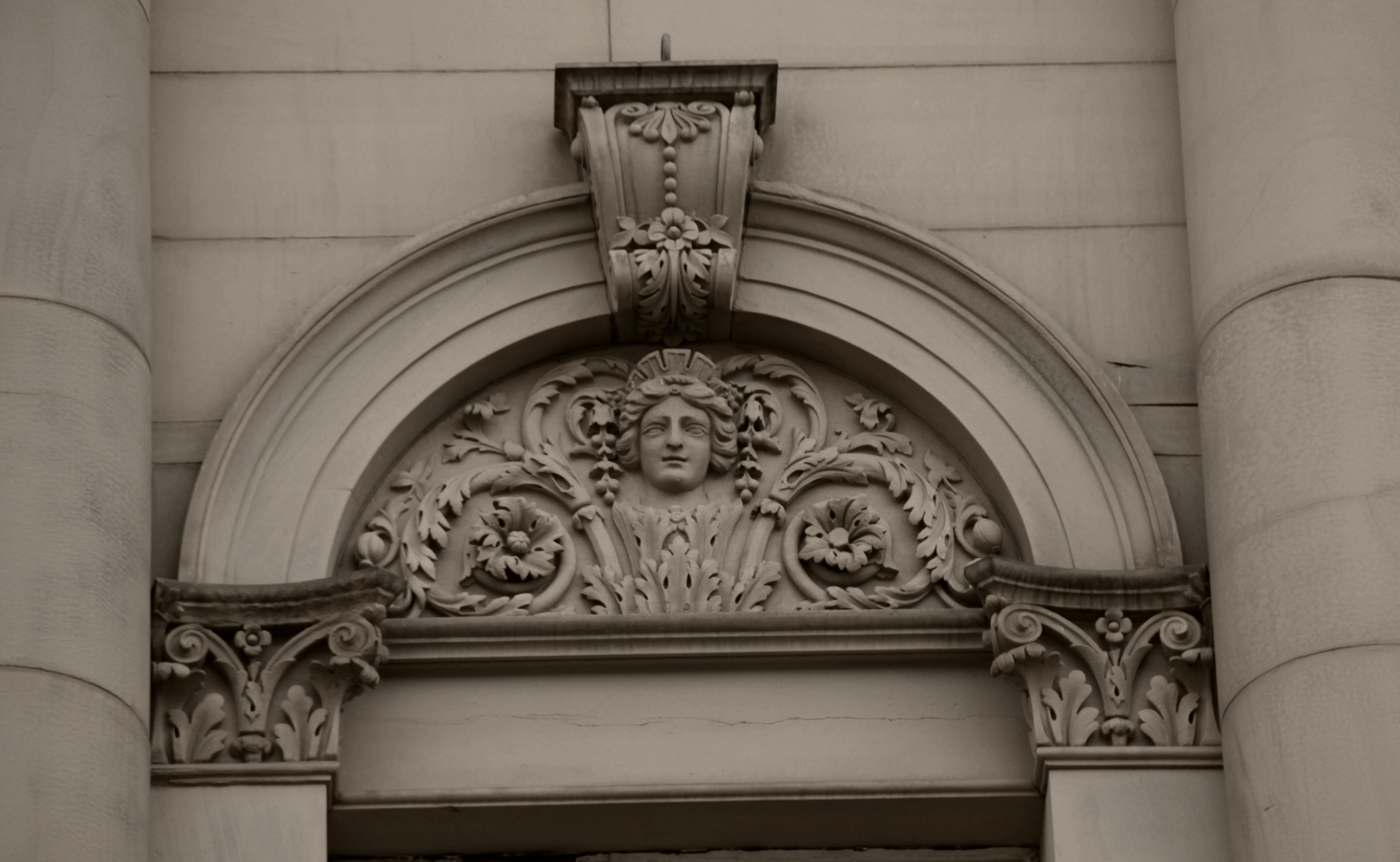 Former Mechanics Institute (Now Marlborough Hall), in Crossley Street, Halifax, West Yorkshire. It was designed by Lockwood & Mawson, and built 1855-1857. All exterior carving by Catherine Mawer.